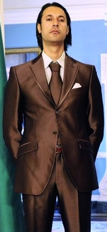 Libyan National Security Adviser Dr. Mutassim Qadhafi in 2009.